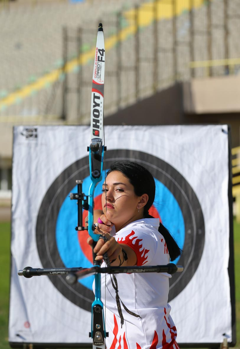 Avrupa Klasik Yay Okçuluk Şampiyonu Yasemin Ecem Anagöz